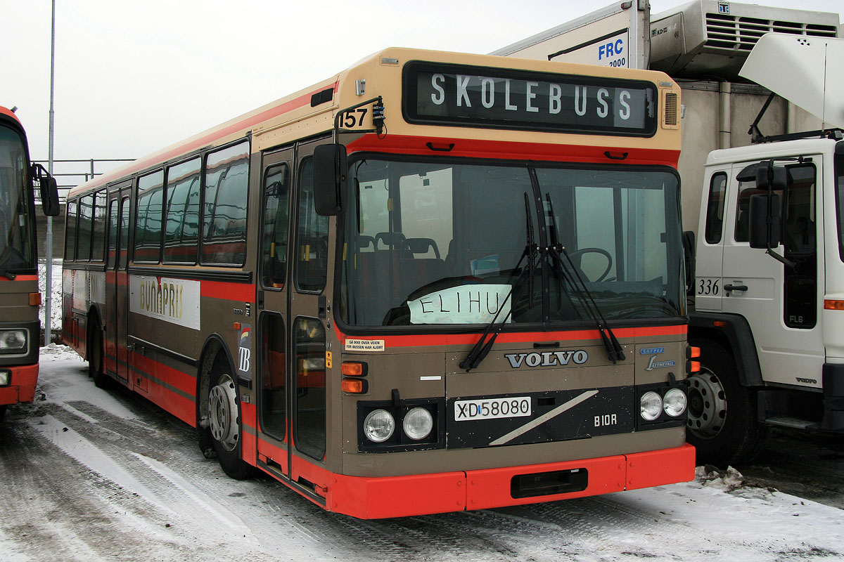 Volvo B10R / Säffle belonging to TrønderBilene in Levanger.